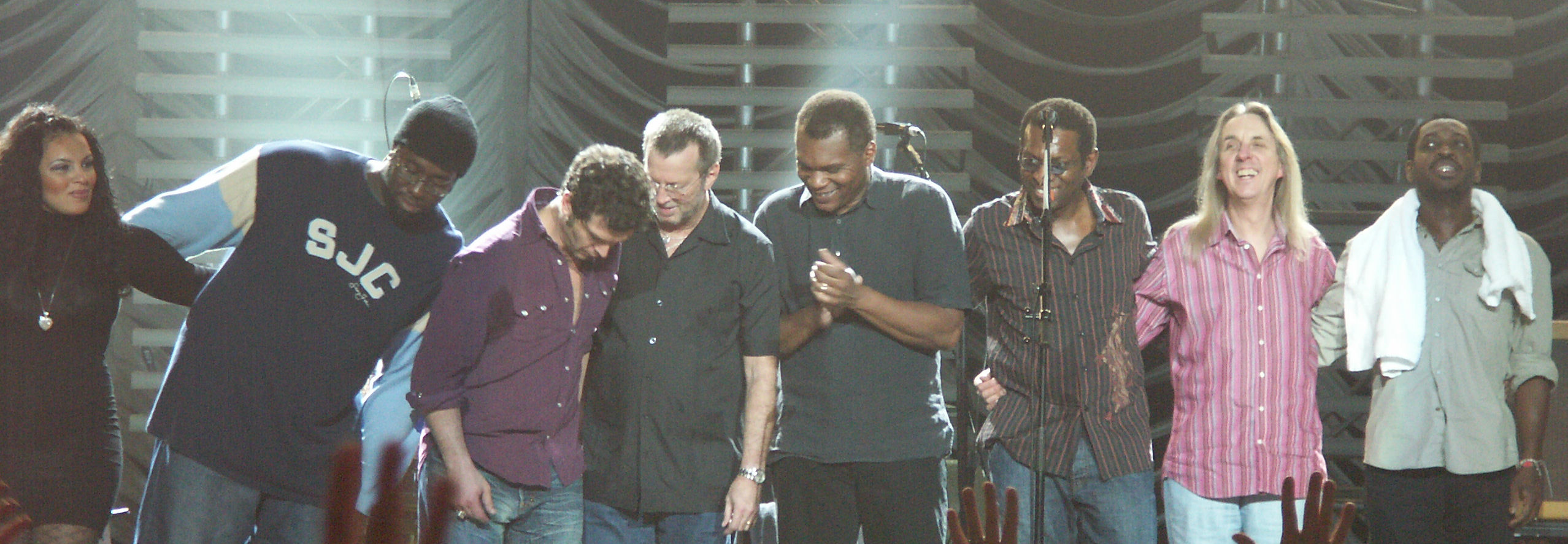 Taken at Clapton March 30 07 Concert in Fargo ND. Photo by Matt Becker